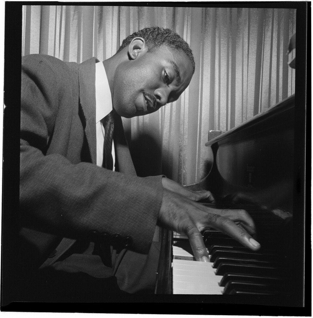 John Malachi. Photograph by William P. Gottlieb (between 1938 and 1948)